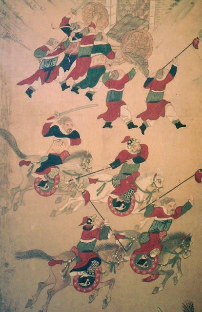 Chinese cavalry and infantry attacking the walls of Pyongyang in 1593, from a Chinese painted screen in the Hizen-Nagoya castle museum